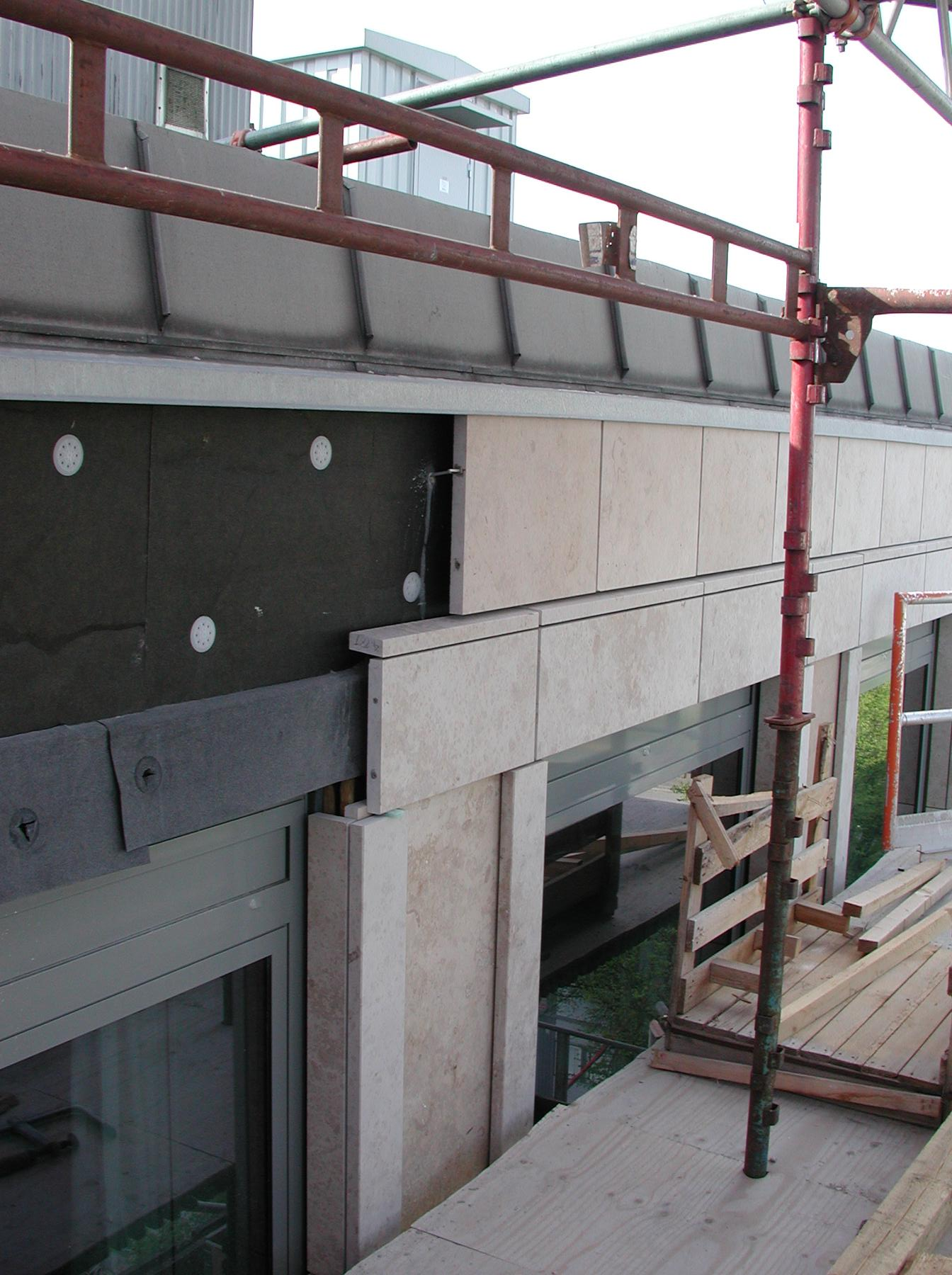 Мounting plate from the jura-limestone for ventilated facades.